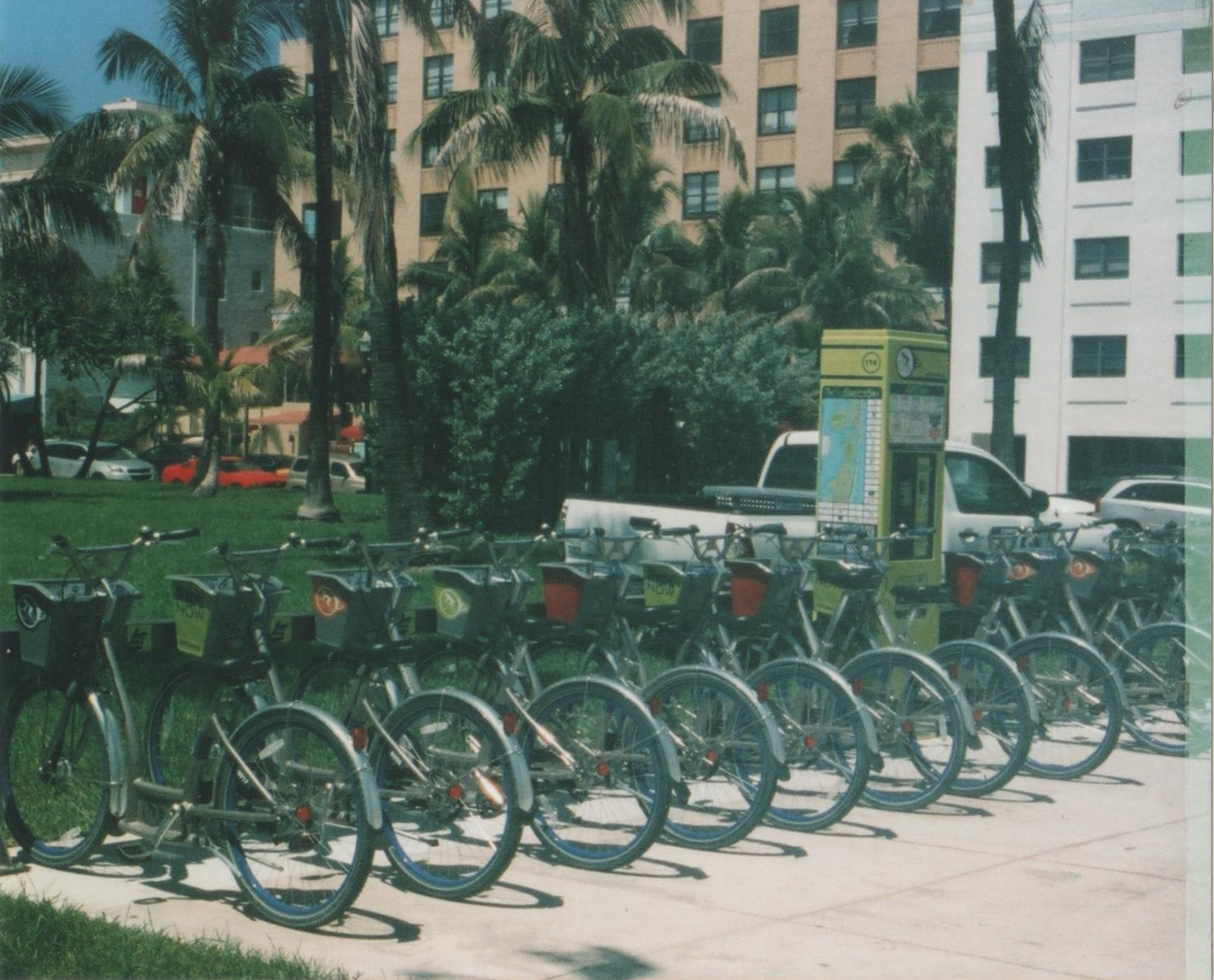 A Deco Bike rack in South Beach